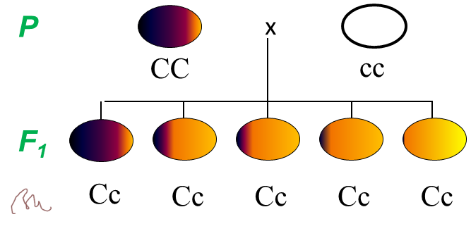 Expressivity in genetics